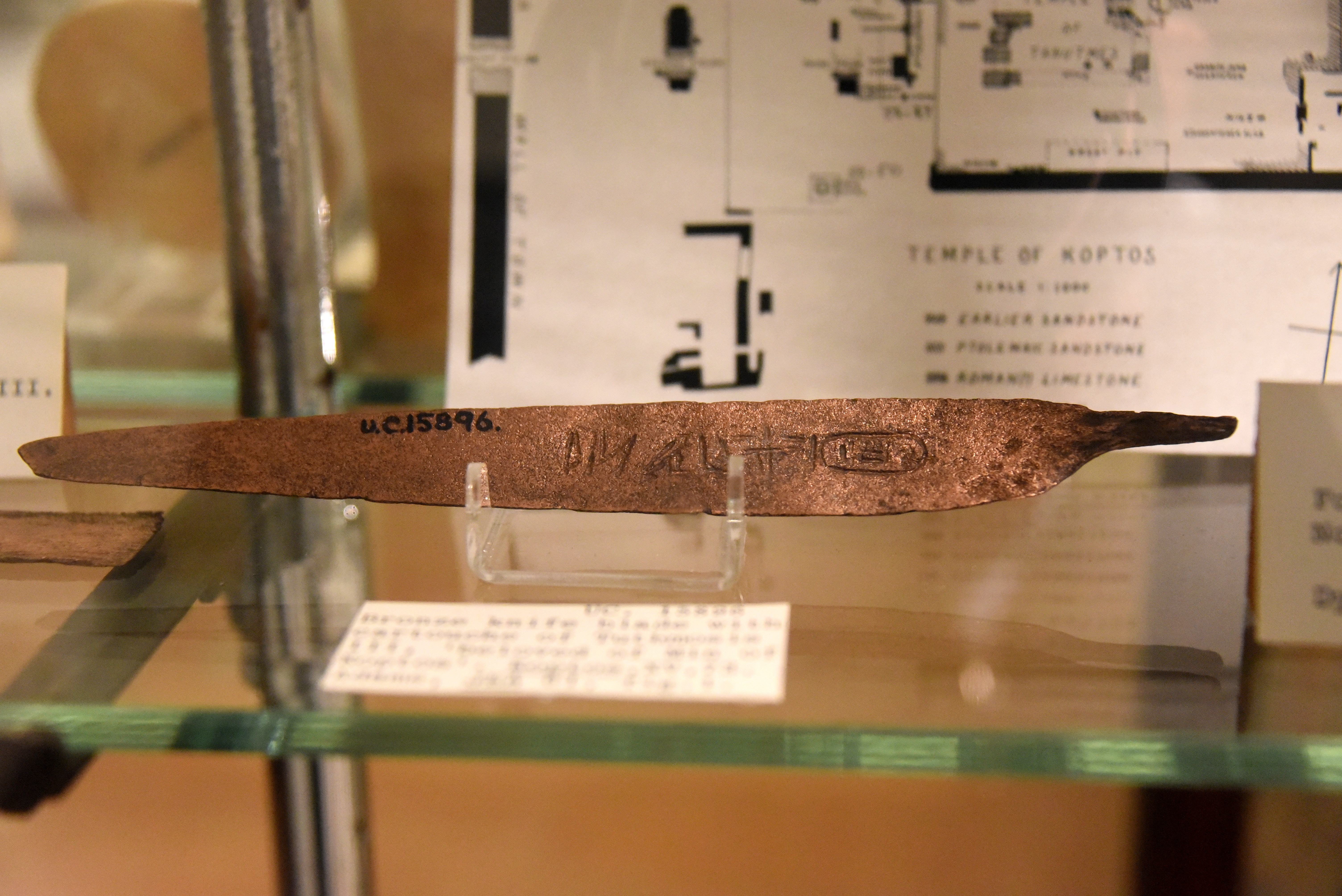 Bronze knife blade inscribed with cartouche of Thutmose III, "Beloved of Min of Koptos". 18th Dynasty. Probably foundation deposit no.1, Temple of Min, Koptos (Qift), Egypt. The Petrie Museum of Egyptian Archaeology, London. With thanks to the Petrie Museum of Egyptian Archaeology, UCL.